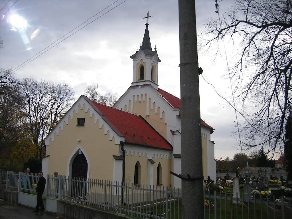 Nedanovce - cemetery chapel